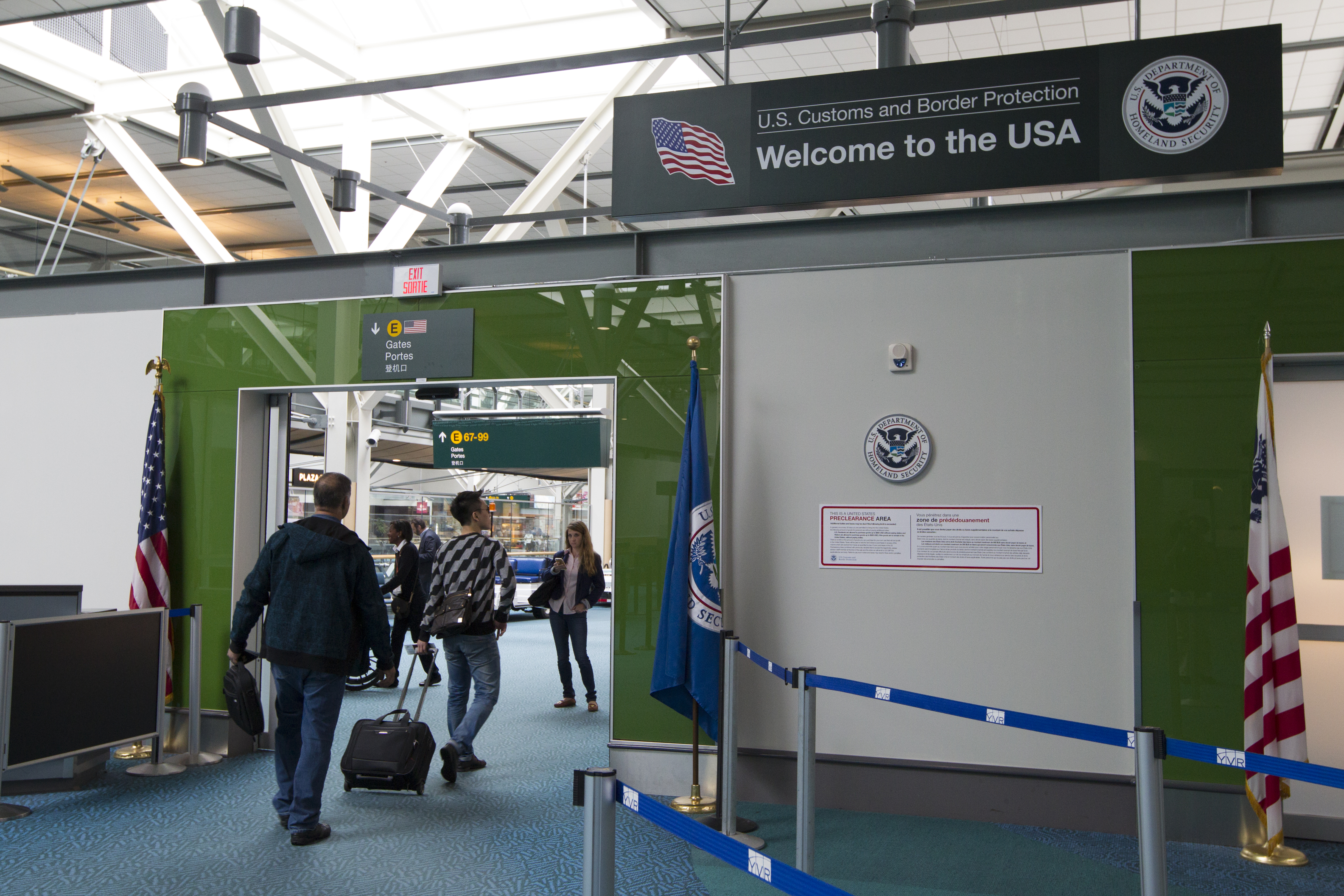 Vancouver, Canada - U.S. Customs and Border Protection (CBP) preclearance operations at Vancouver International Airport. Passengers depart the processing area and enter the Downstream area where they can purchase duty free mechandise and connect to airport flight gates. Photographer: Donna Burton